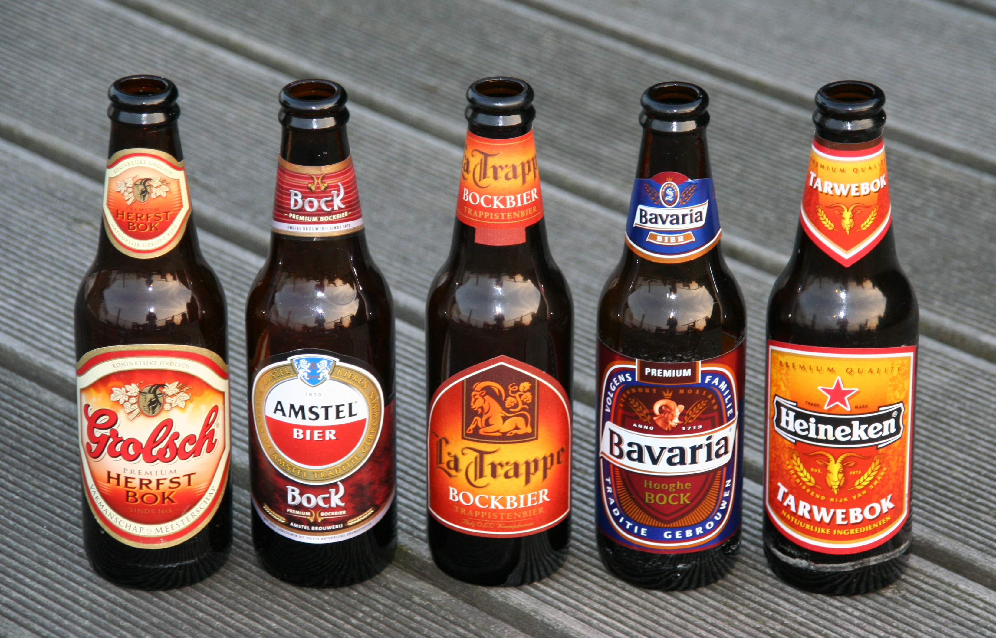 Collection of dutch bock beers